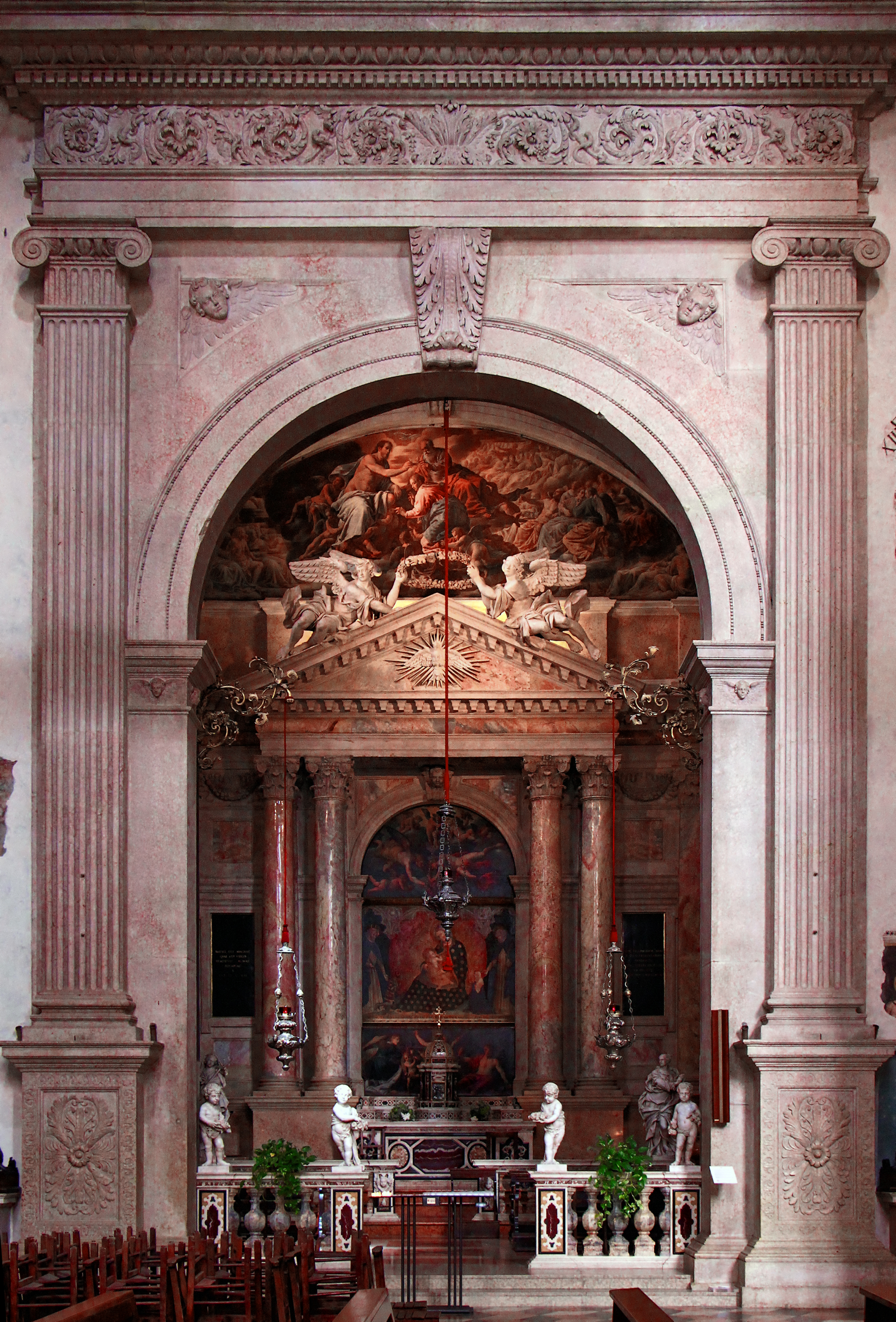 Cappella del Rosario (Rosary Chapel), Chiesa di Sant'Anastasia, Verona, Italy. The chapel was built 1585 - 1596 by Domenico Curtoni.